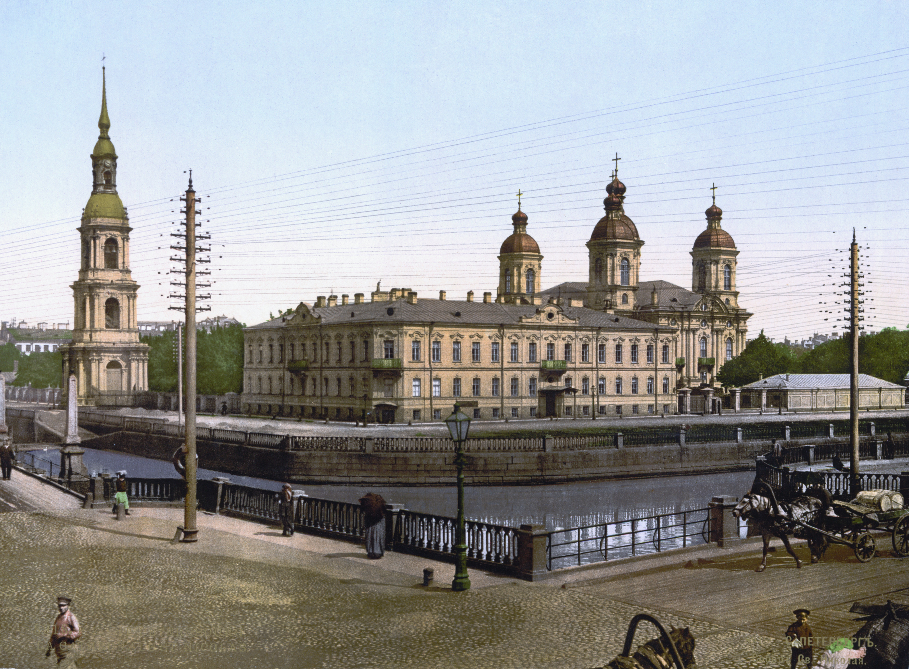 View of the Naval (St. Nicolas) Cathedral in St Petersburg (Russia). 19th-century photochrome print (1890—1900)